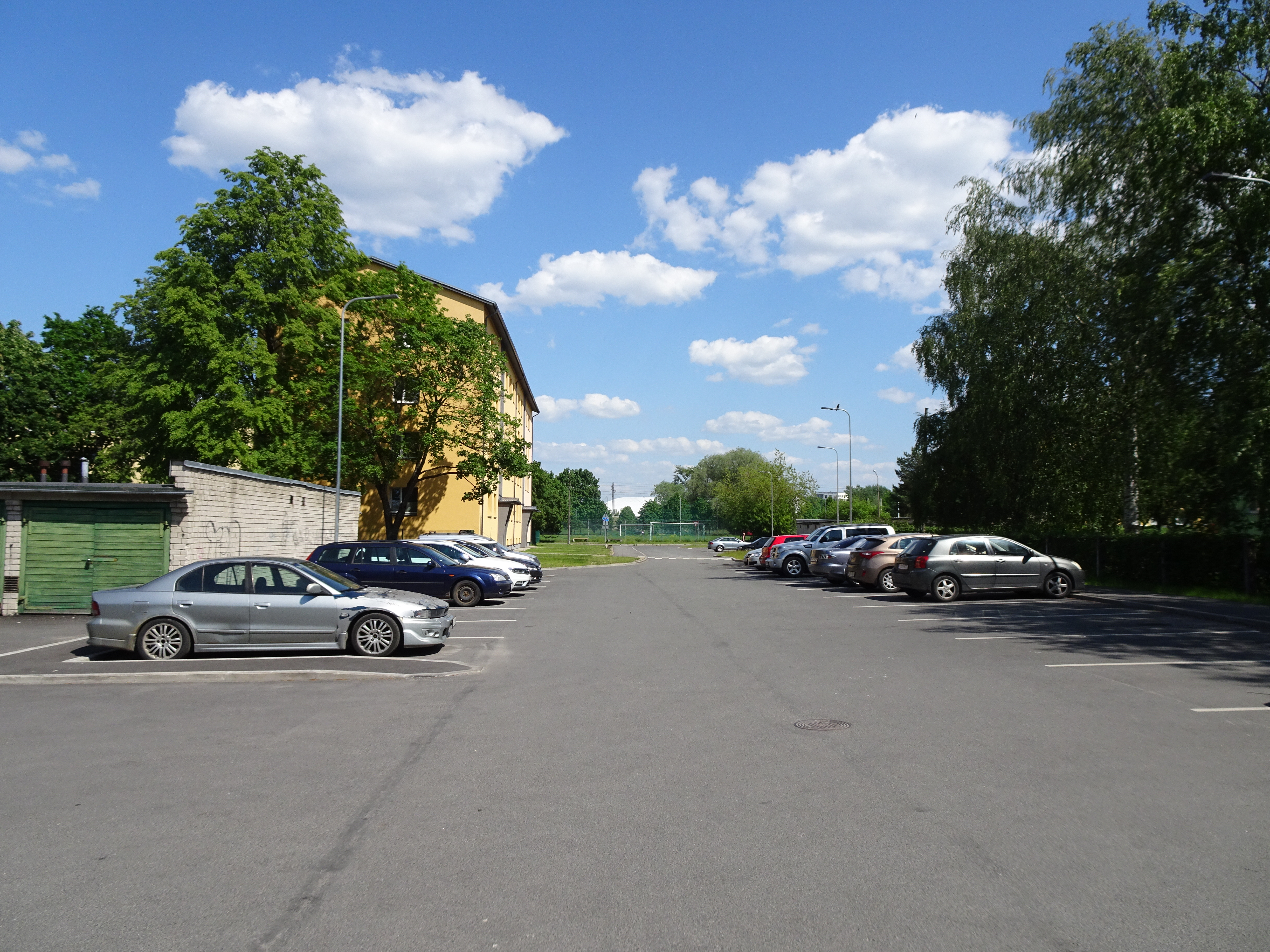 Lagle Street in Tallinn, Estonia